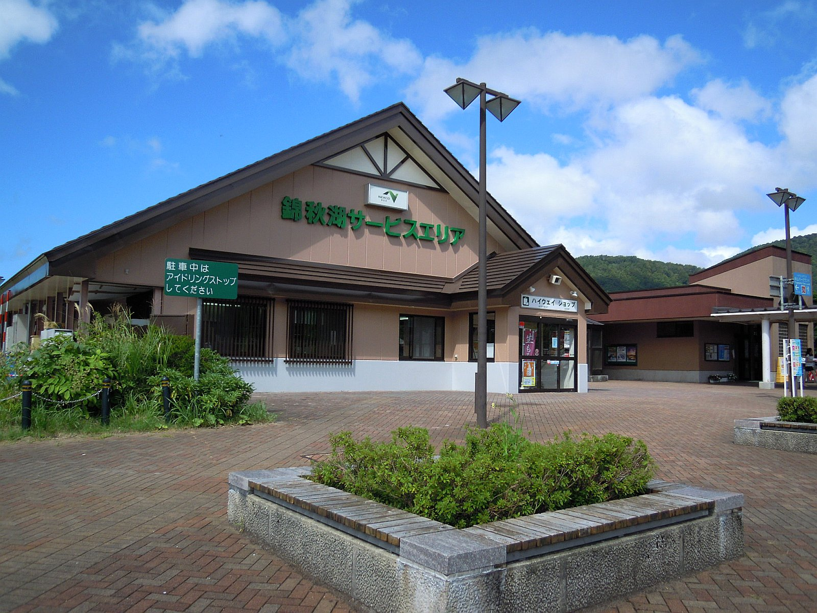 Kinshuko Service Area on the Akita Expressway eastbound line